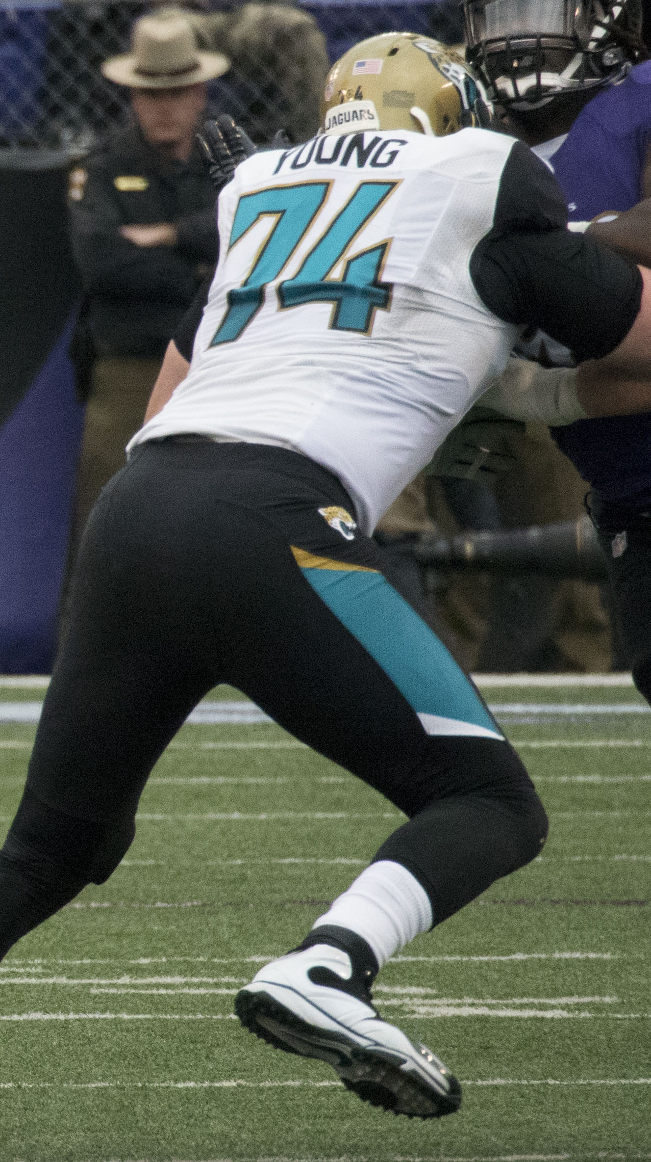 Jaguars at Ravens 12/14/14